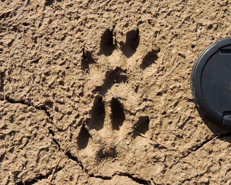 Nyctereutes procyonoides footprints